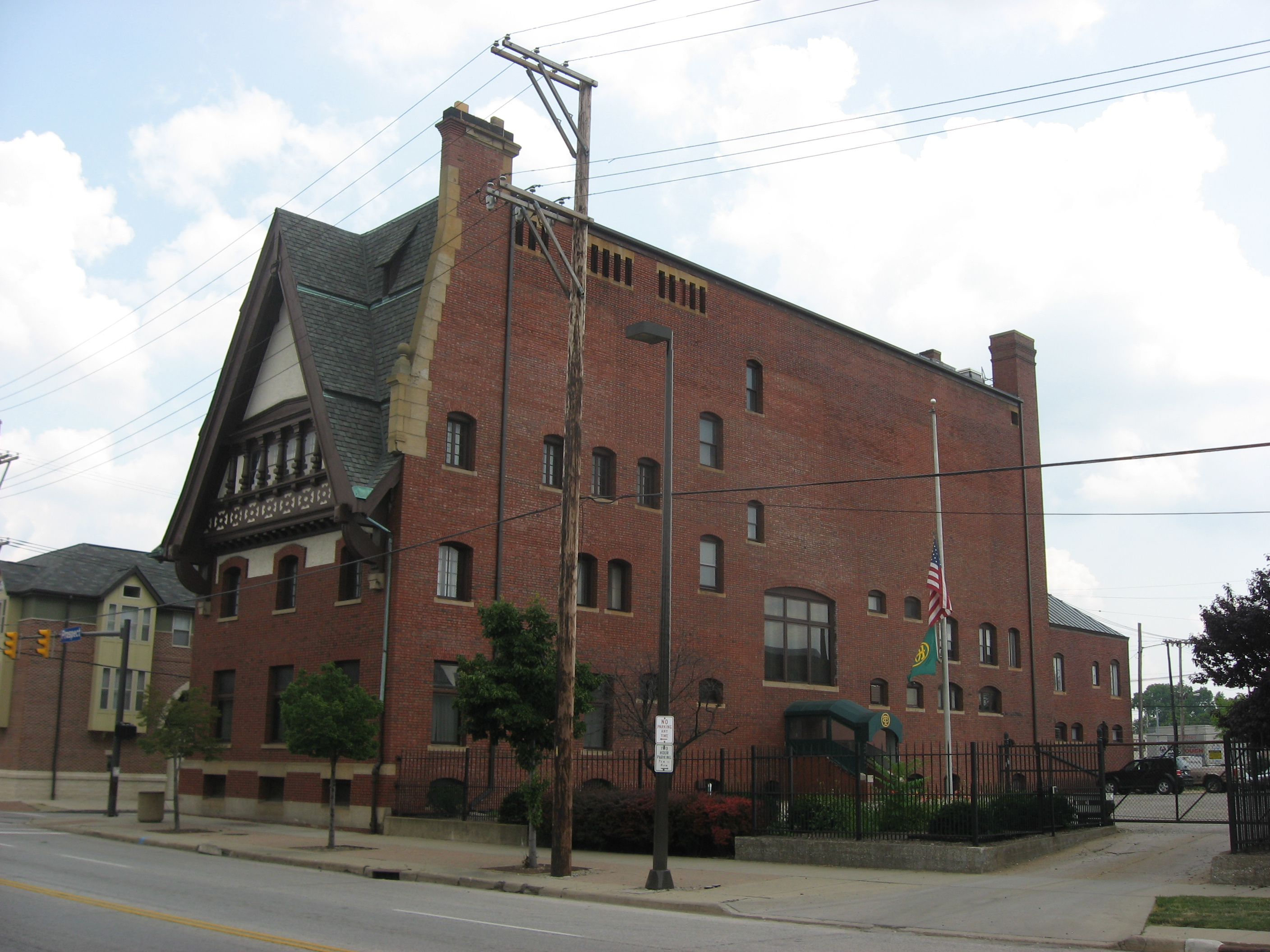 Exterior of the Tavern Club, located at 3522 Prospect Avenue Cleveland, Ohio, United States. Built in 1905, it is listed on the National Register of Historic Places.